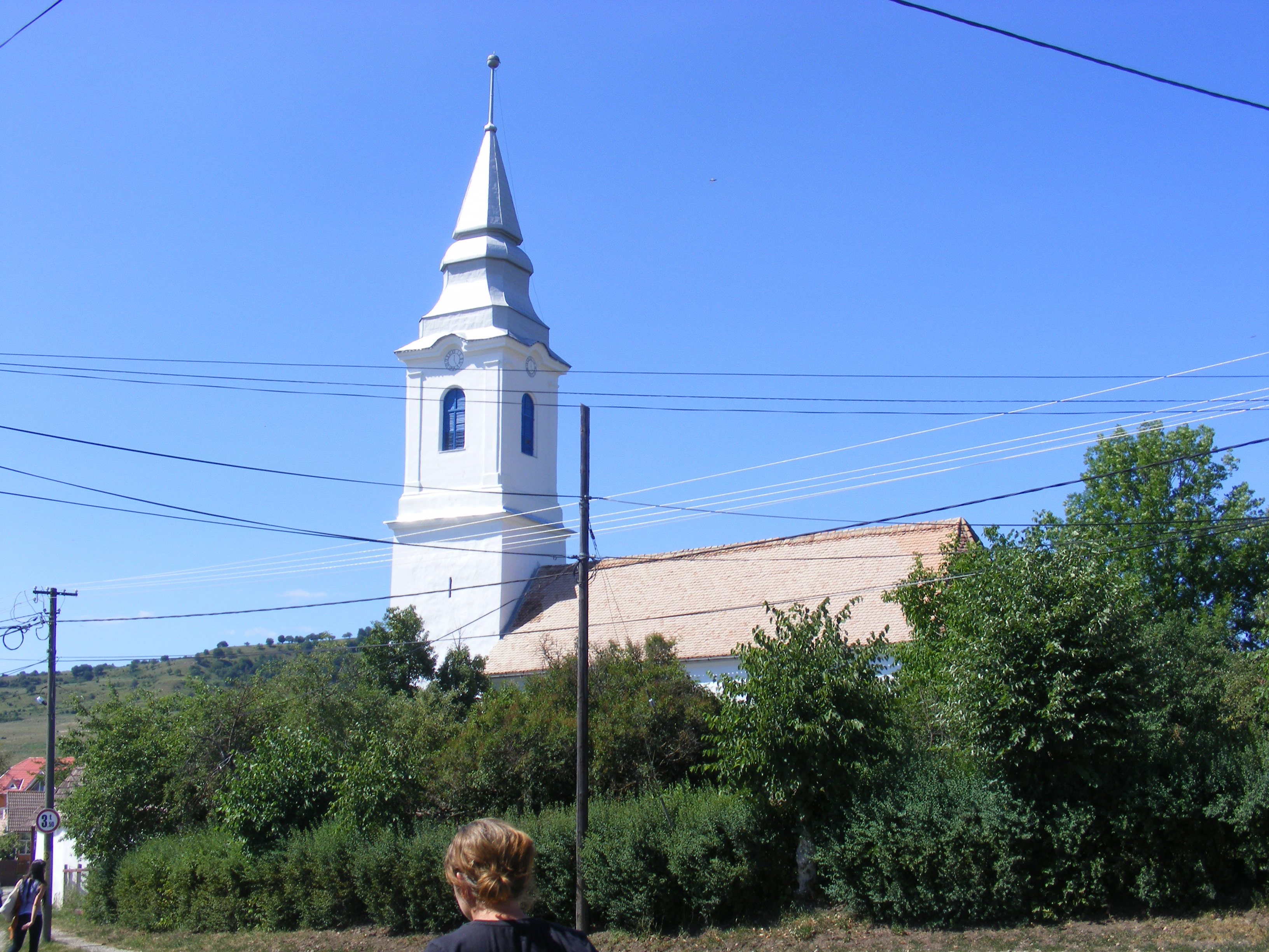 Reformat church in Felsőboldogfalva (Feliceni), Harghita county, Romania.